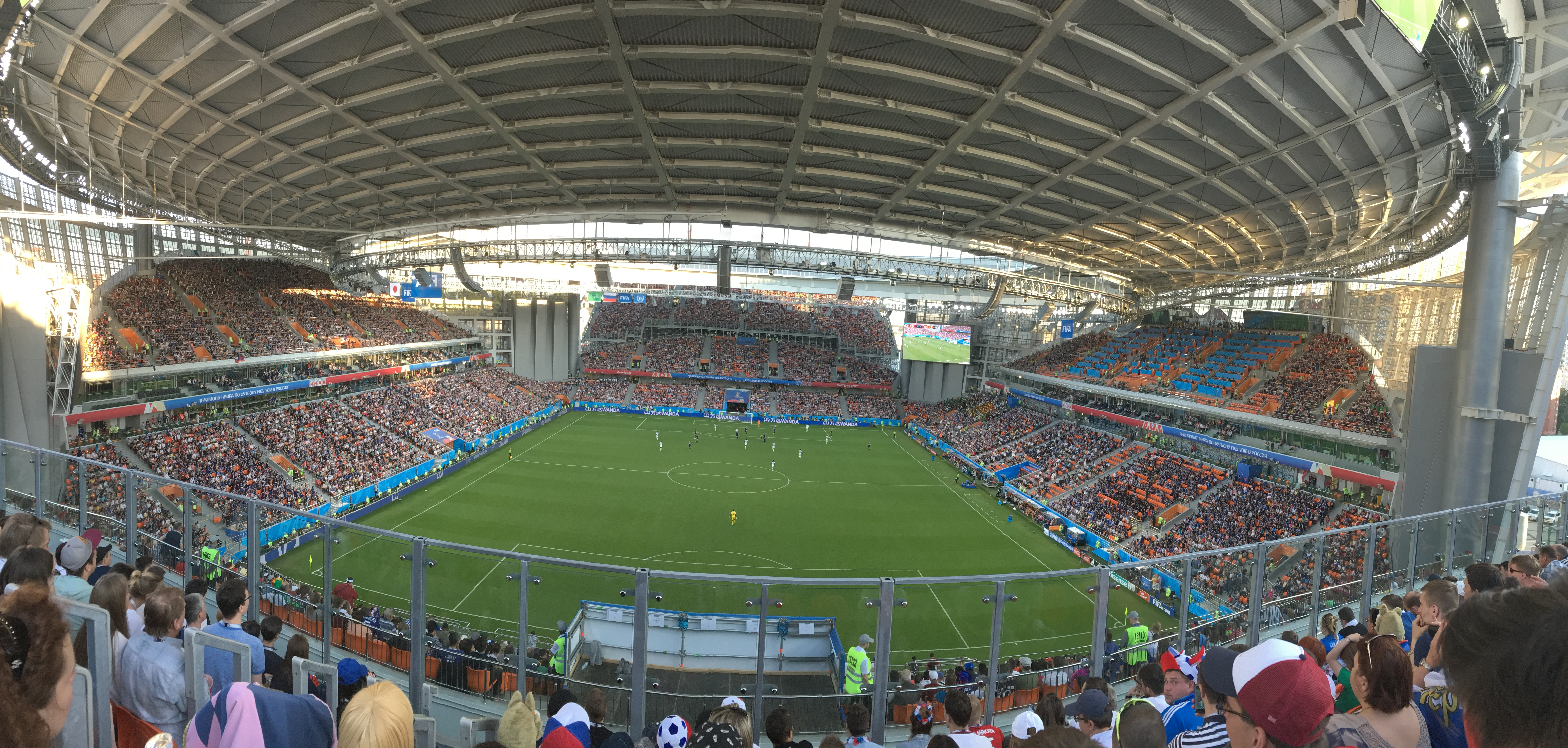 Japan-Senegal in Yekaterinburg (FIFA World Cup 2018)